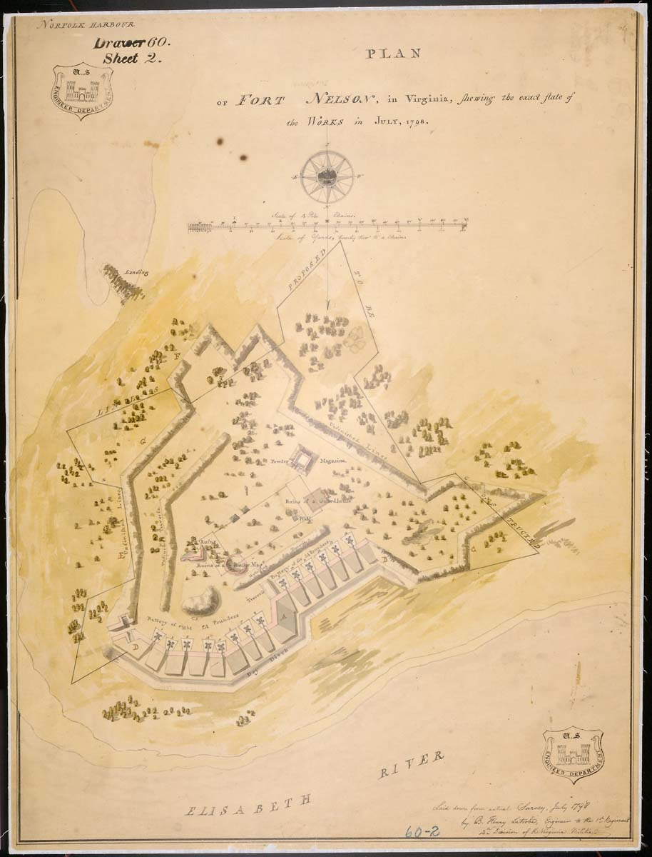 This plan by architect Benjamin Henry Latrobe shows the state of Fort Nelson in Portsmouth, Virginia as of July 1798.